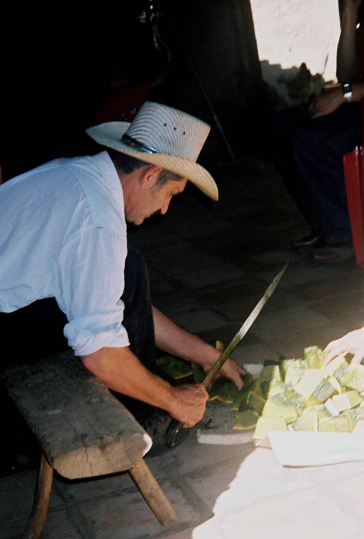 Salvadoran man using long machete to prepare a squash